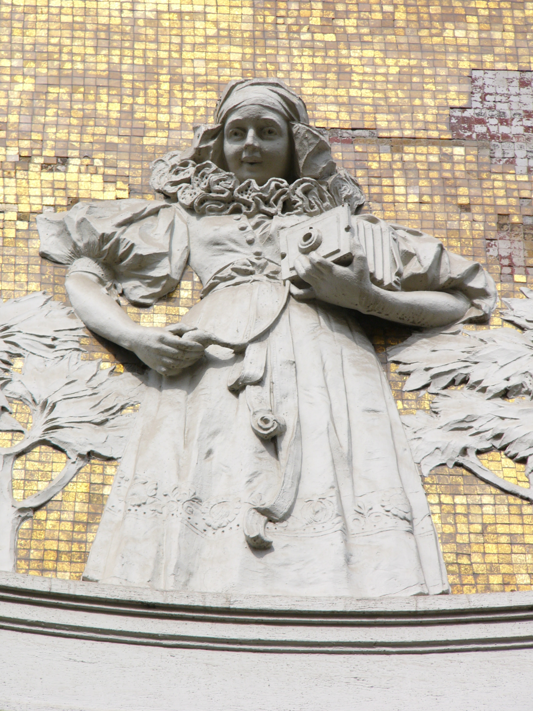 Garb of Haná region - relief at Ostružnická street in Olomouc (Czech Republic).